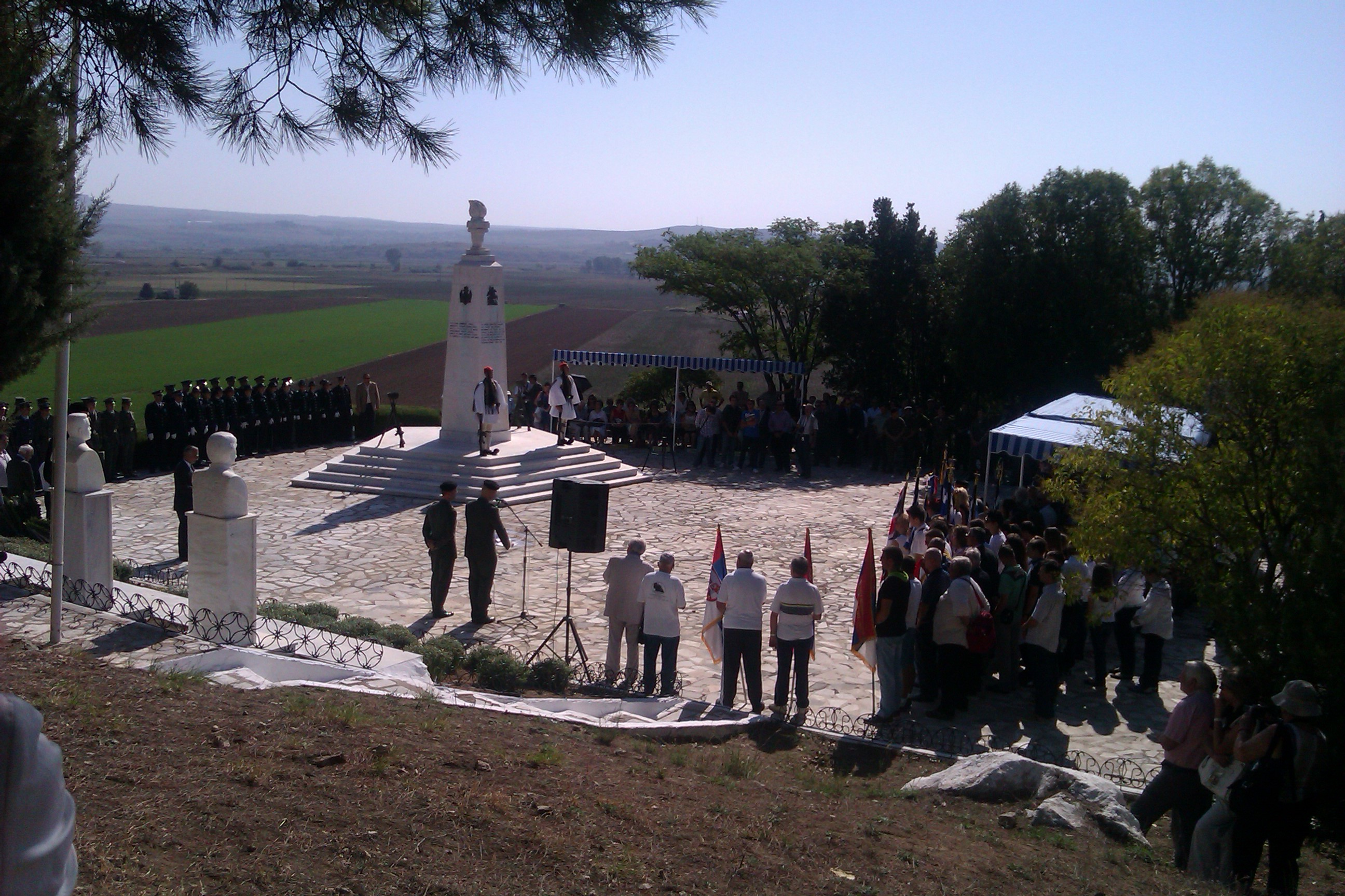 94th anniversary for the Breach of the Macedonian Front in WWI, Allied Monument for the Breach of the Macedonian Front in WWI, Latomi, Macedonia, GREECE